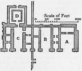 Plan of Palace of el Hadr.A, Throne or reception room.B, Large hall, orC, Entrance hall of temple.D, Temple. Illustration from 1911 Encyclopædia Britannica, article Architecture.